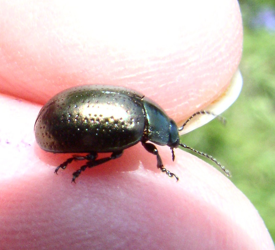 Chrysolina hyperici (St. Johnswort Beetle). Salem, Oregon.